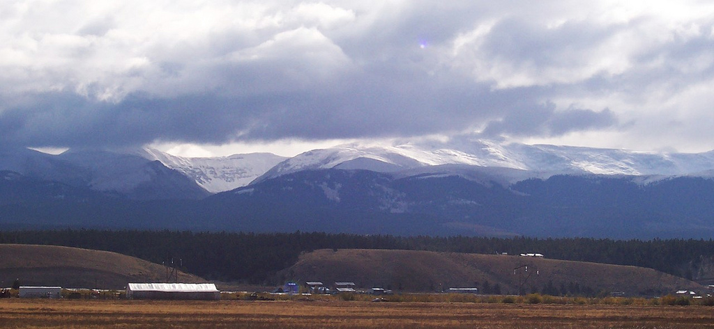 Weston Pass and the southern Mosquito Range just after sunrise.